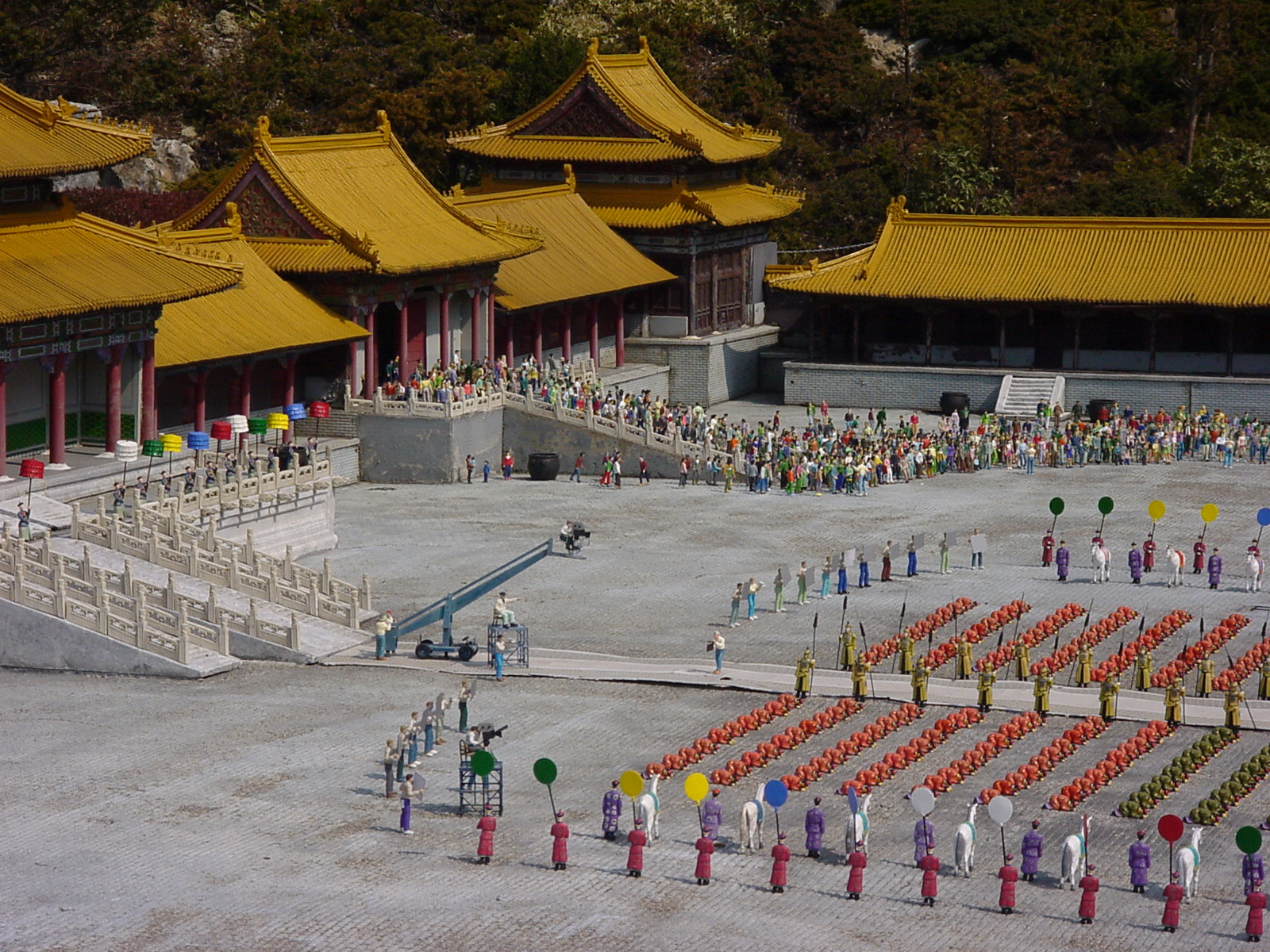 1:25 scale miniature scene depicting the filming of the movie The Last Emperor at the Forbidden City at Tobu World Square.